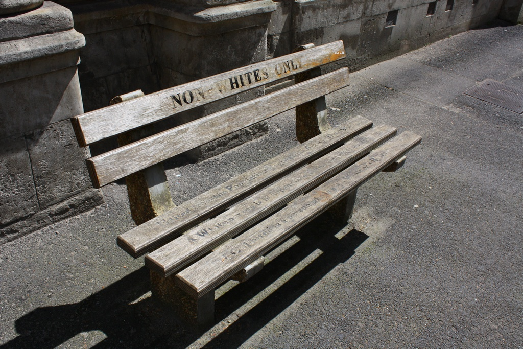 Non-whites only apartheid bench (political art), Cape Town This media shows a South African Protected Site with SAHRA file reference [1].